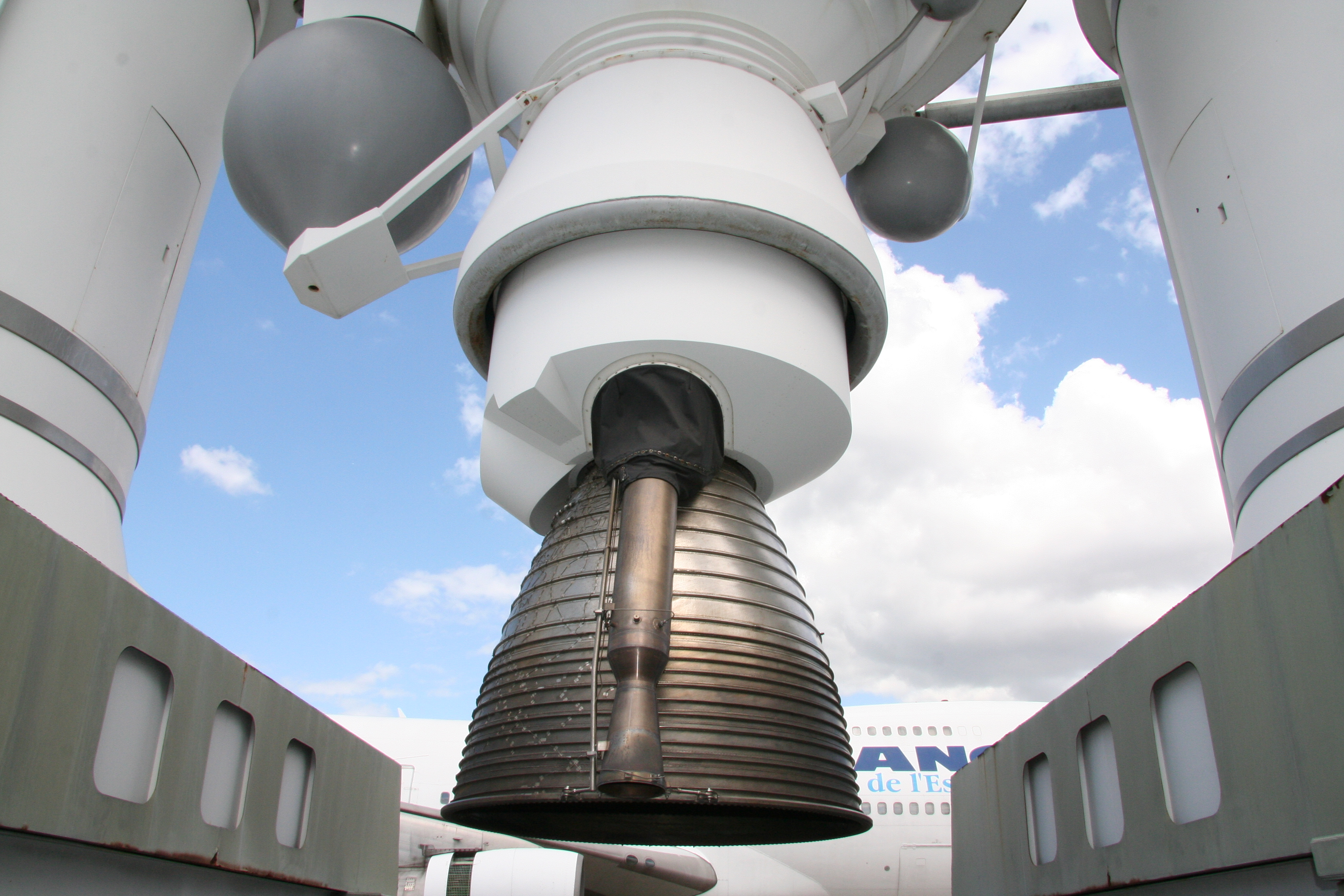 Ariane 5 rocket engine mock-up - Paris Air Show 2009